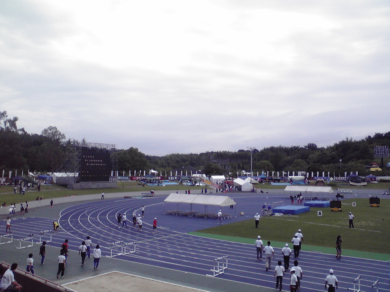 This is konoike Track and field stadium.